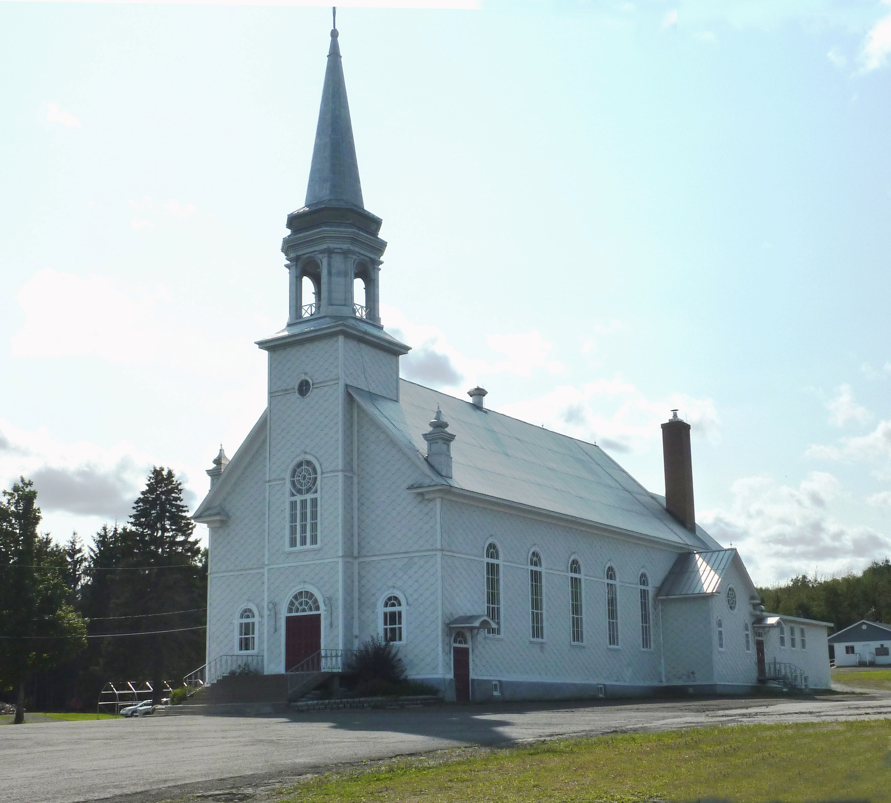 Saint-Zénon-du-Lac-Humqui's Church, Qc